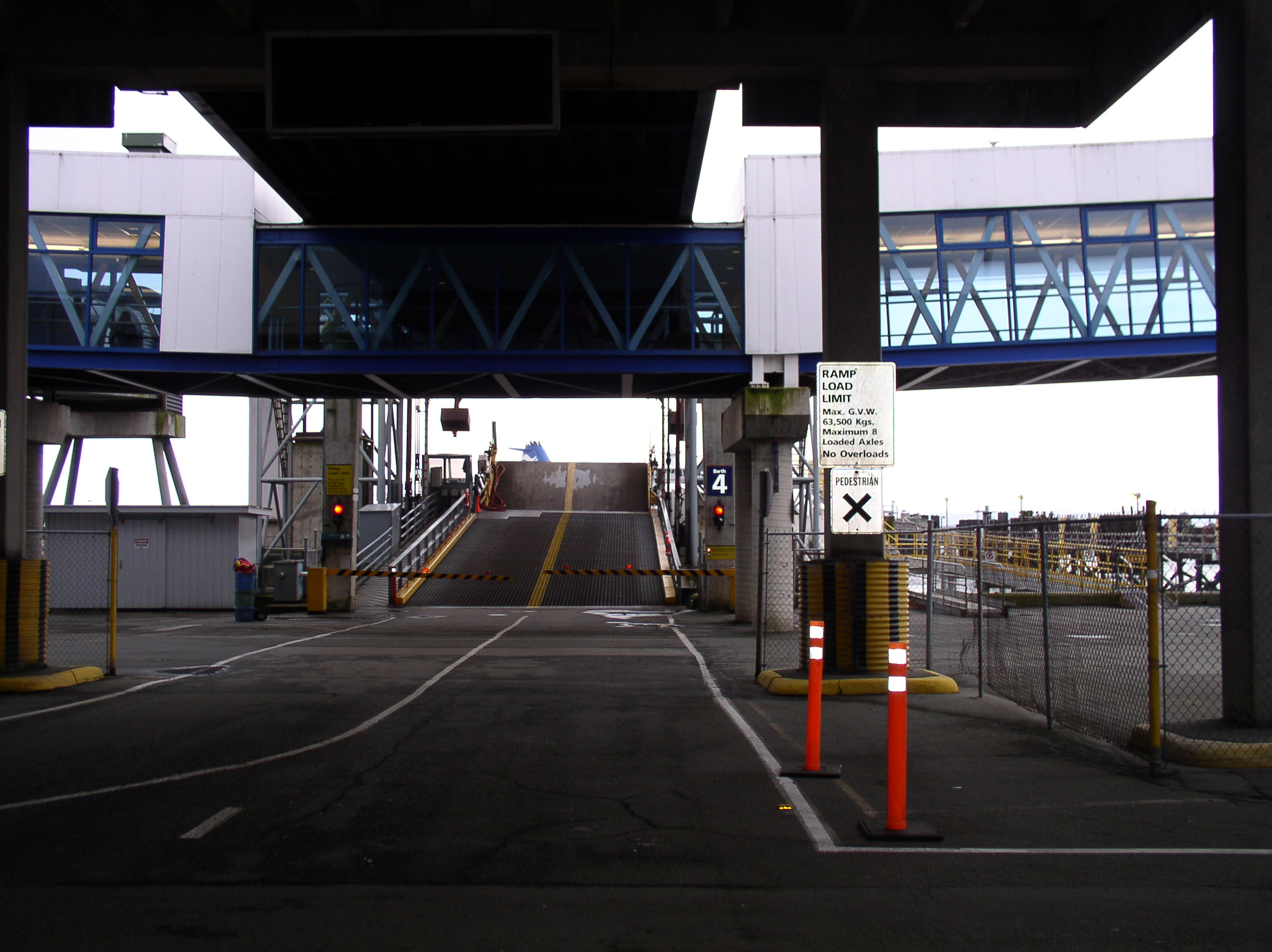 BC Ferries loading ramp